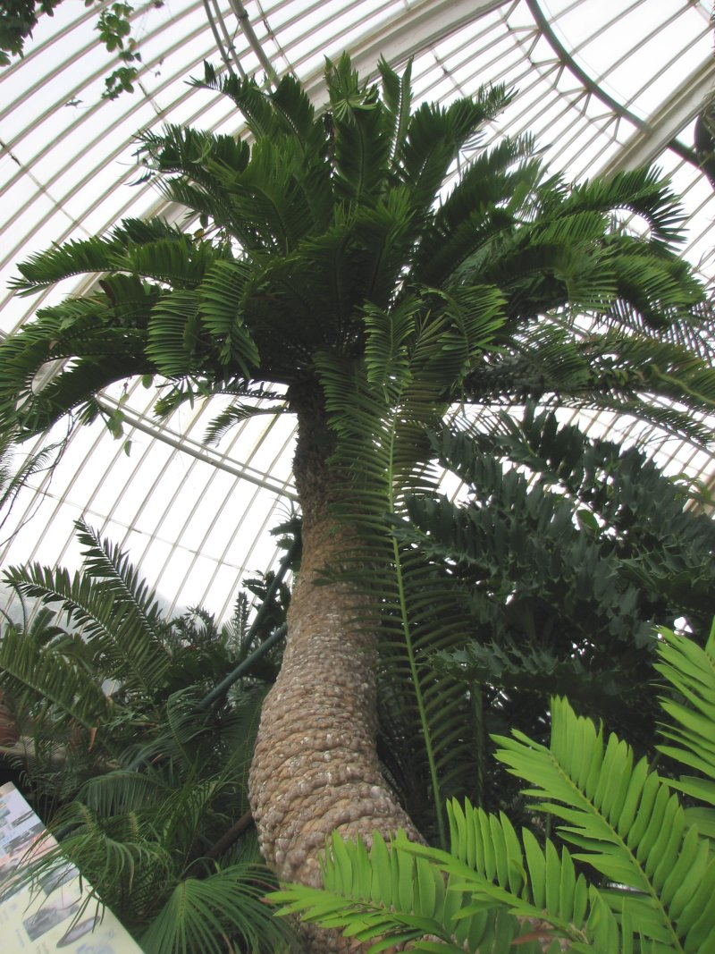 Encephalartos altensteinii Lehm. (Bread Palm). Taken at Palm House, Kew Gardens, (London, UK)